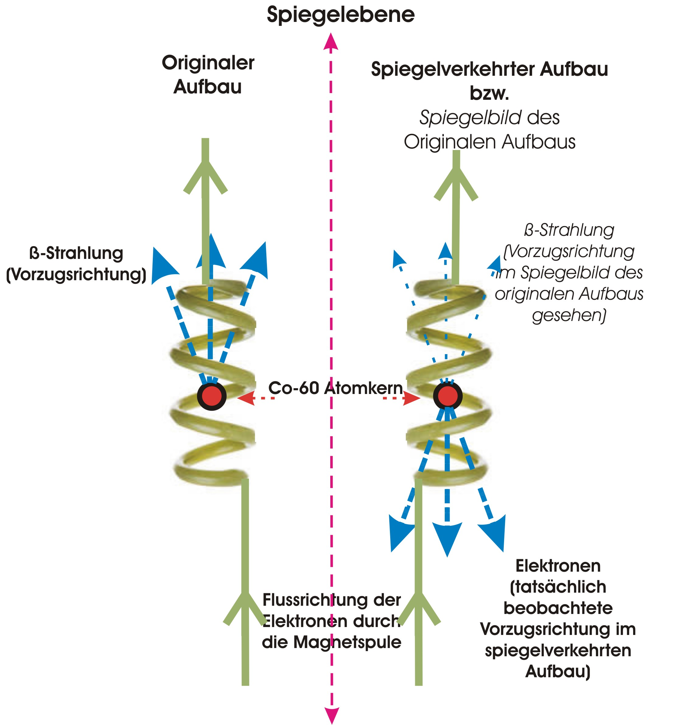 principle of Wu experiment 1956 to detect parity violation in nuclear beta decay